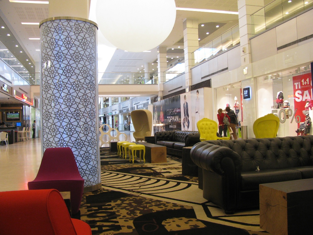 Innovative design of resting spots